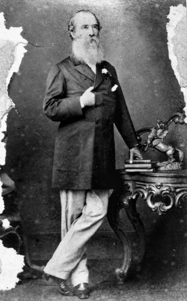 Sir Maurice Charles O'Connell, Queensland pioneer and politician.